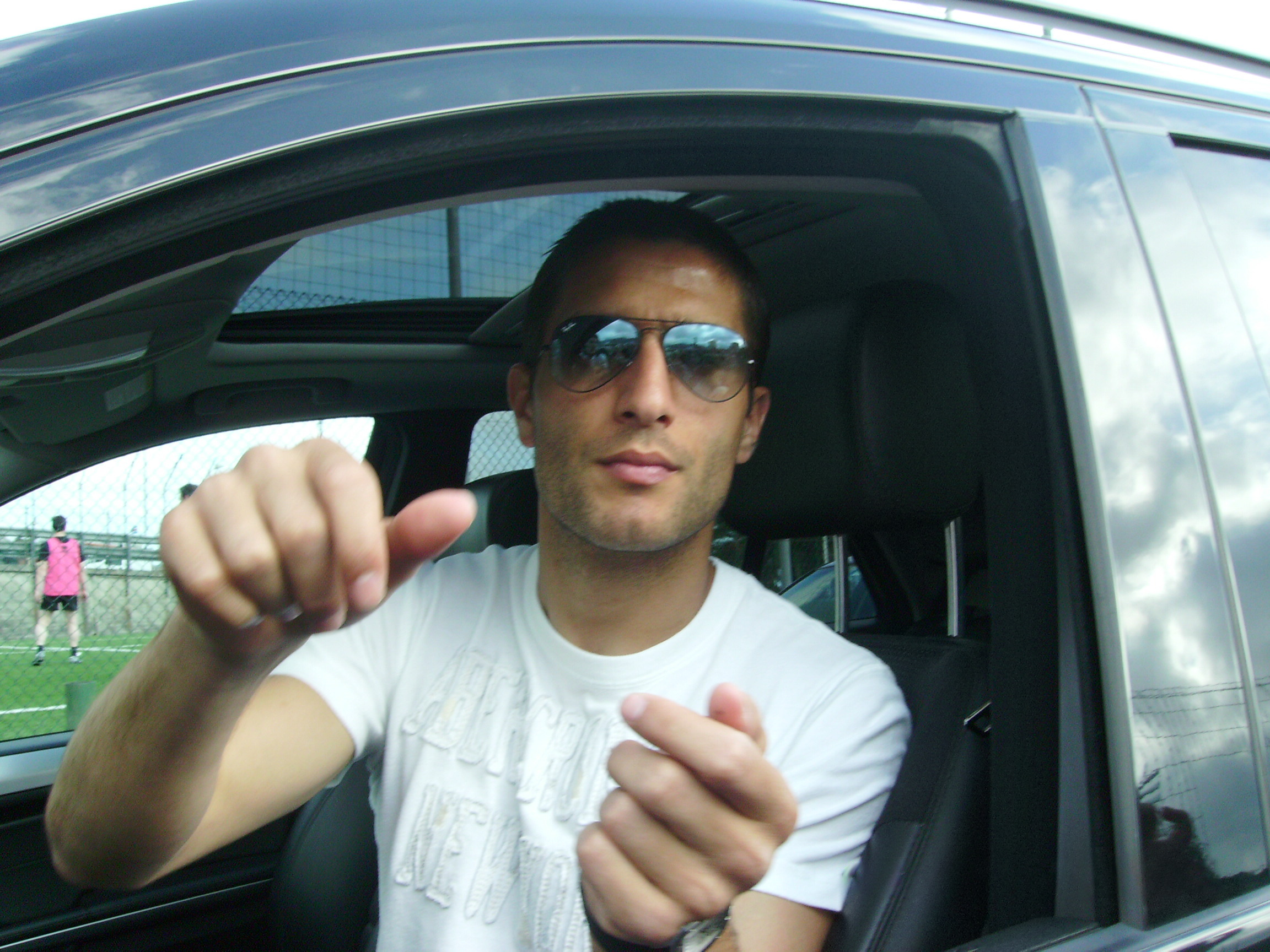 The football player Giuseppe Sculli